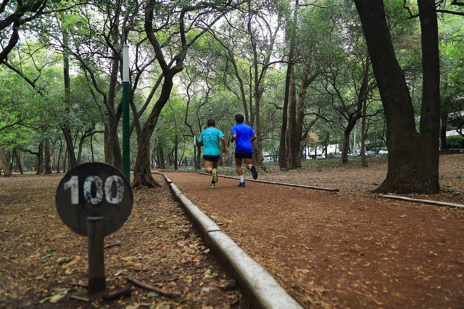 People running at Circuito Gandhi, Mexico City